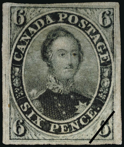 Canadian stamp of Prince Albert, issued in March 1855